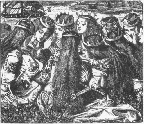 Woodcut by the Dalziel brothers. An llustration for Edward Moxon's illustrated edition of Alfred, Lord Tennyson's Poems (1857).